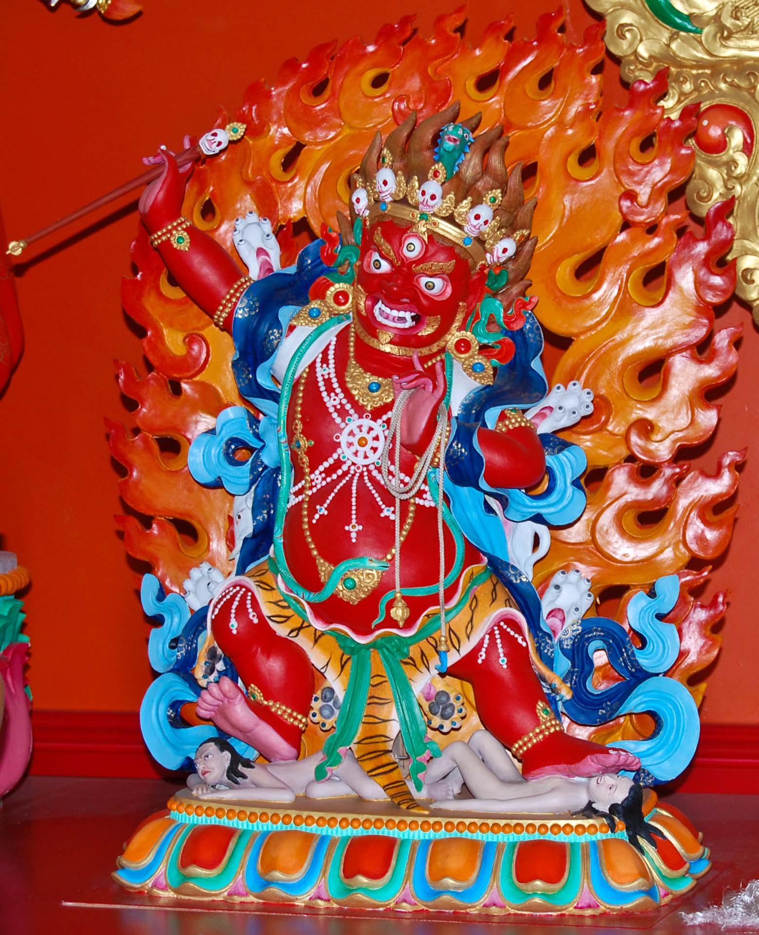 Hayagriva in the 1000-armed Chenrezig shrine, in Samye Ling Tibetam Buddhist centre, Scotland.